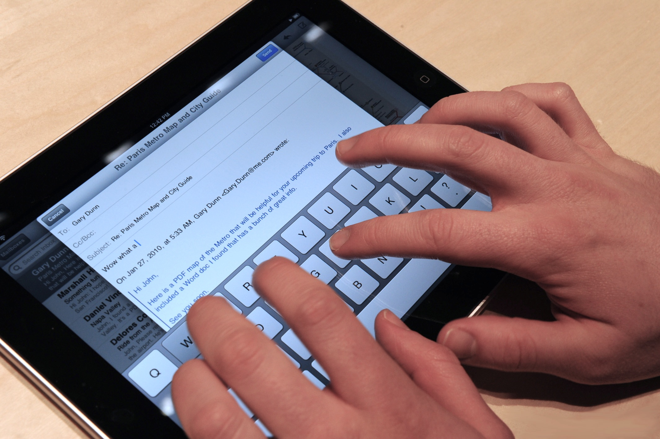 iPad with on display keyboard